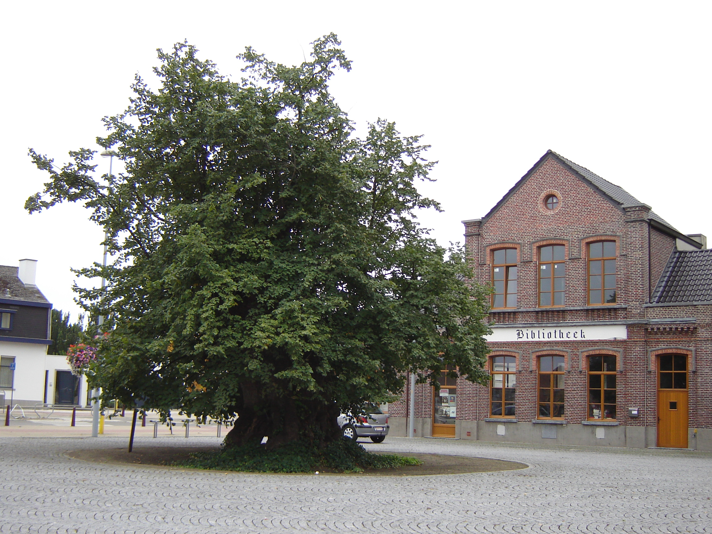 Old lime tree (linden) on the village square of Massemen. Planted in the decades just before or after 1600. Massemen, Wetteren, East Flanders, Belgium